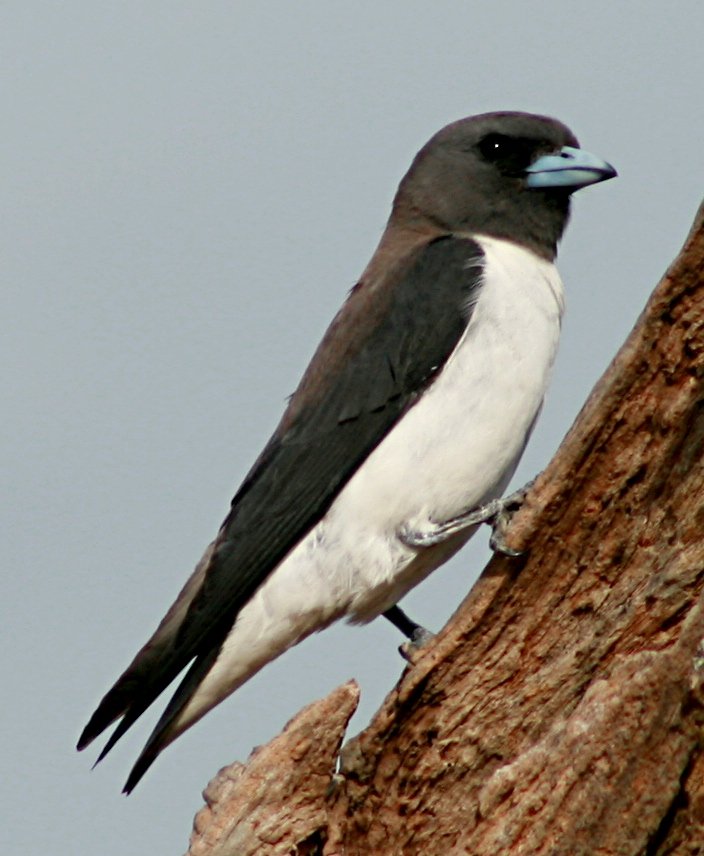 A White-breasted Woodswallow (Artamus leucorynchus) perched upright above its nest on the foreshore of the lagoon between MacMasters and Copacabana beach on the central coast of New South Wales, Australia.